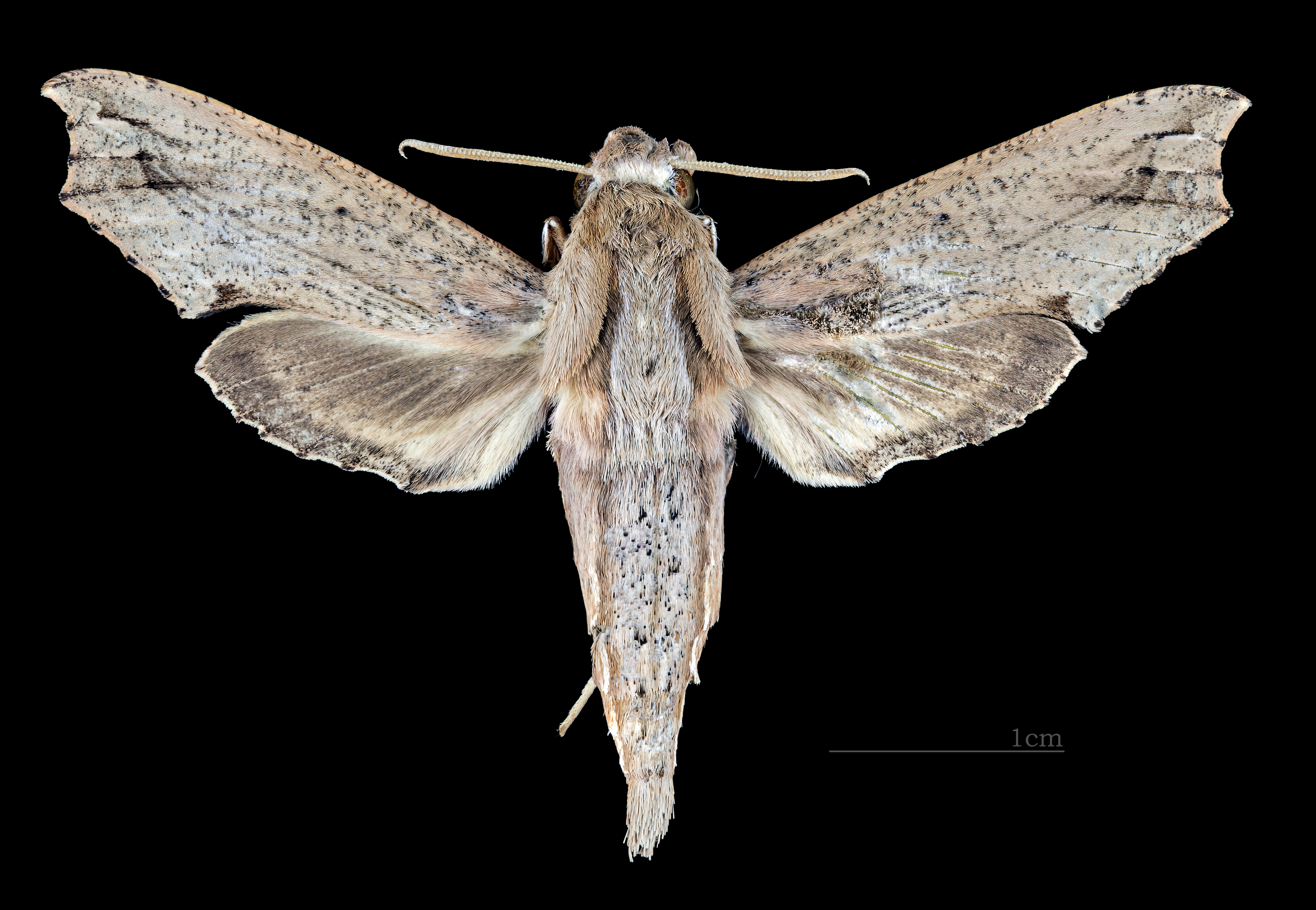 Eupanacra automedon - Dorsal side Collection of the Mathematician Laurent Schwartz